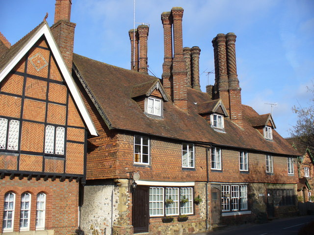 Cottages, Albury Street A mix of brick and tile-hung cottages dating from the mid 19th century. The village was then forcibly moved 1 mile westwards from Albury Park by the new landowner, Henry Drummond.